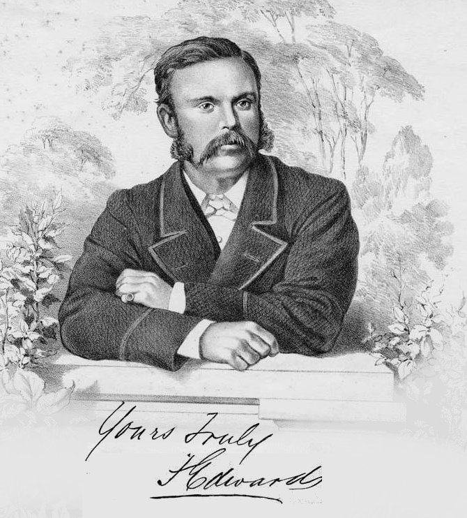 Autographed theater card from Henry Edwards, actor in stage plays from 1850s to 1880s.